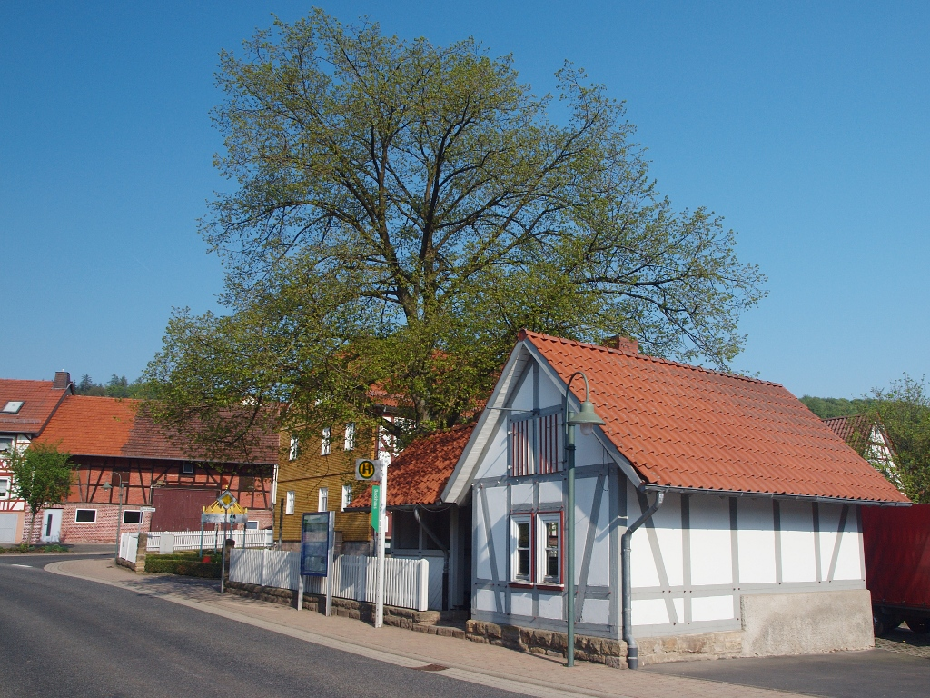 Bake house in the village Reckerode and the bus stop, called "Backhaus"